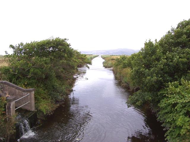 River Leri. River Leri to the east of Borth.